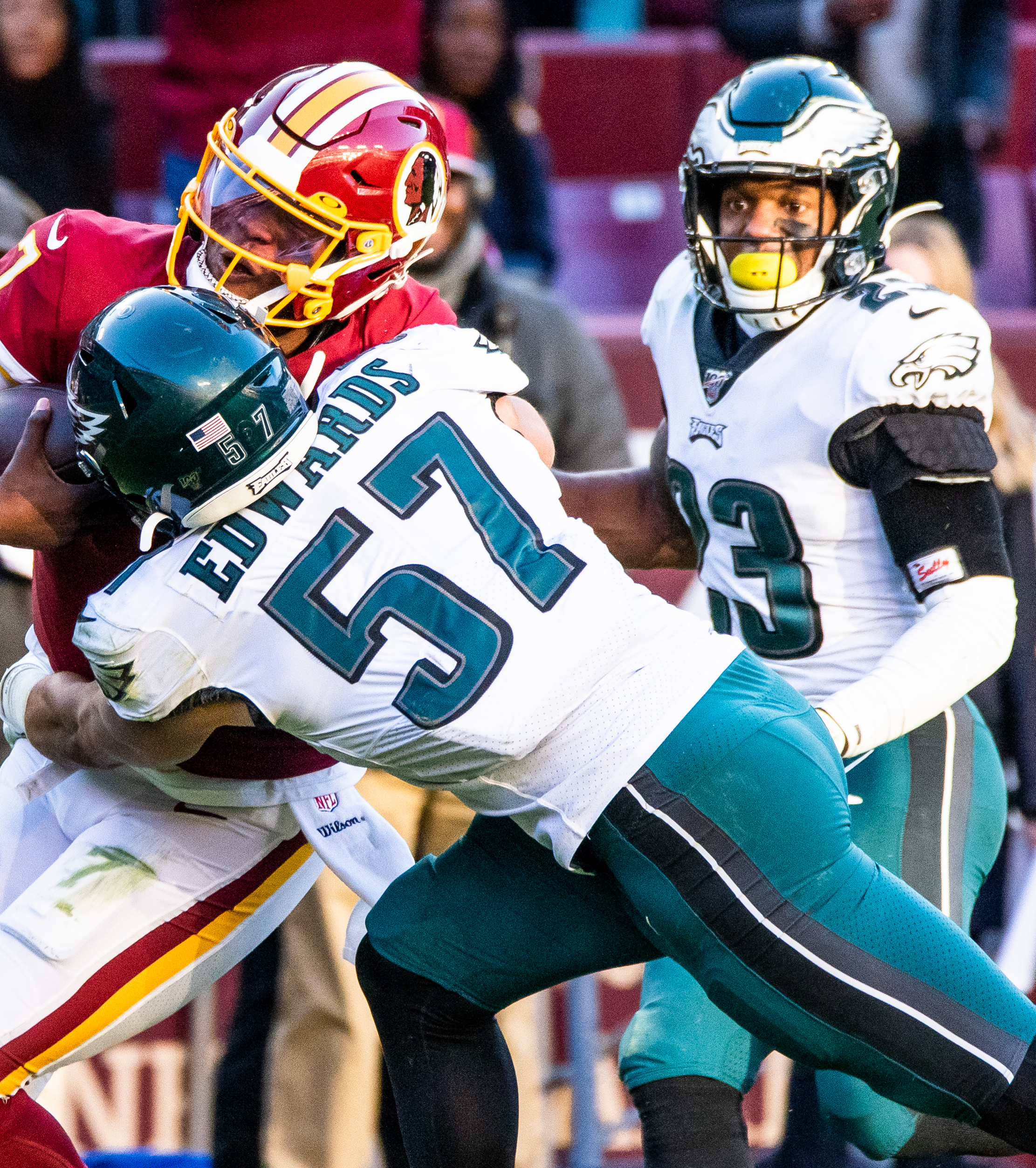 Edwards makes the tackle